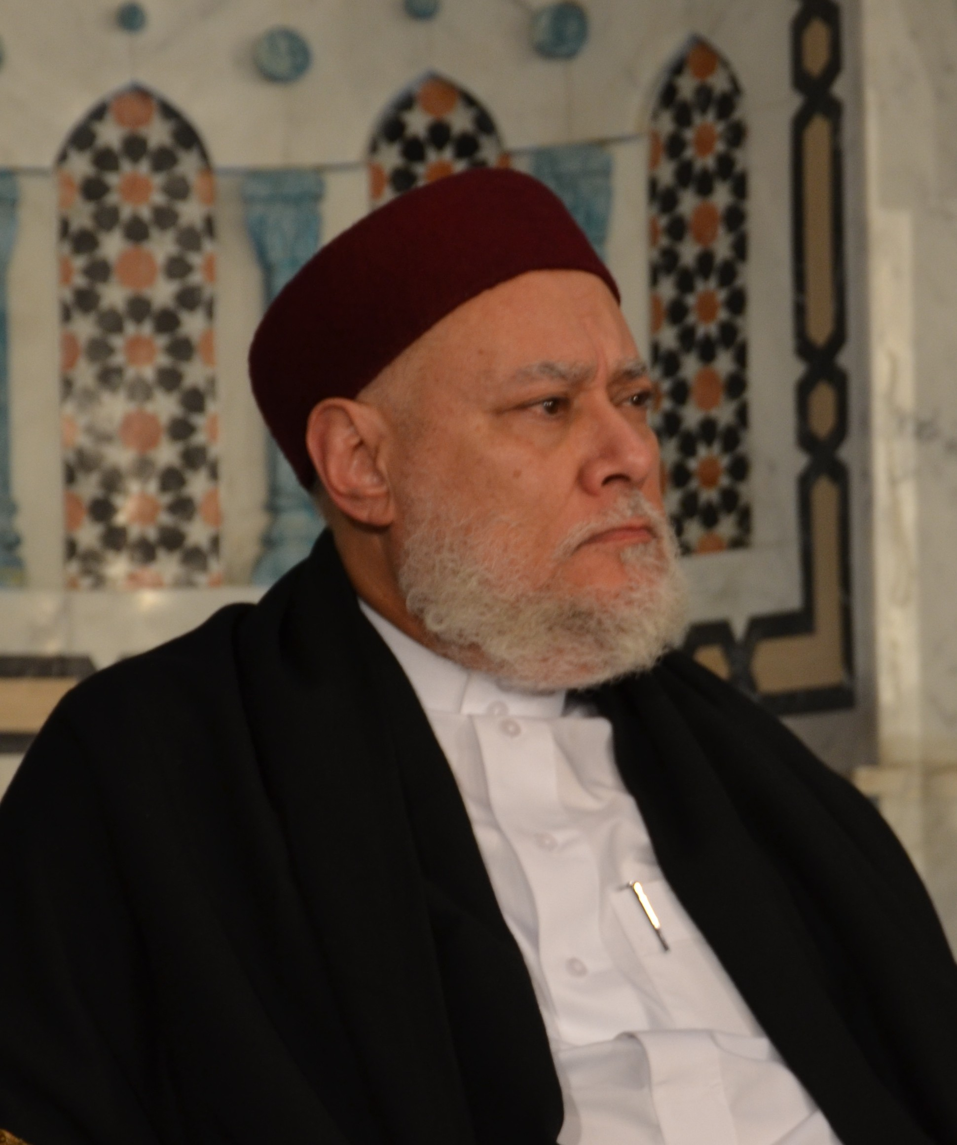 Dr. Ali Gomaa